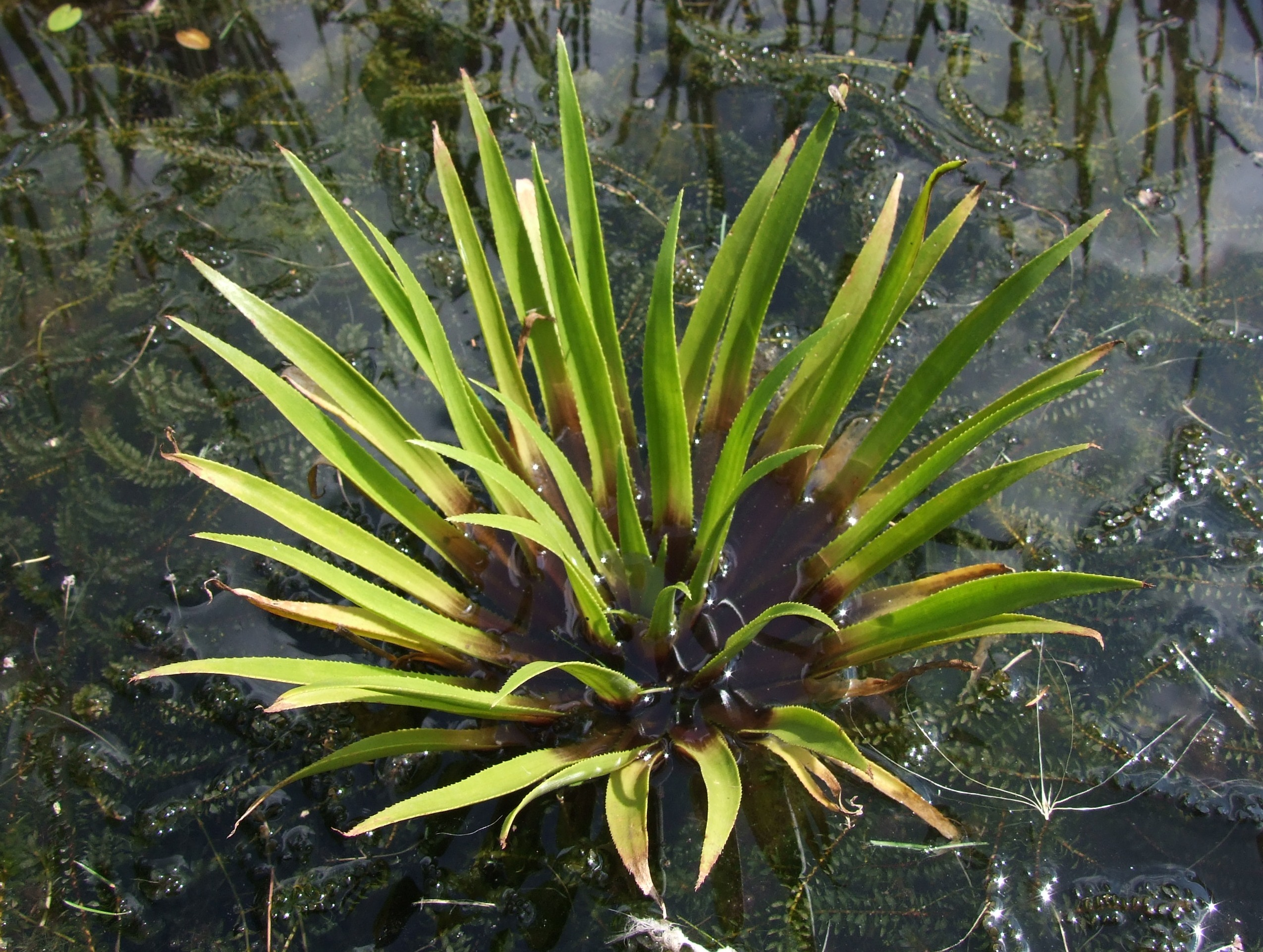 Stratiotes aloides (pl. osoka aloesowata)